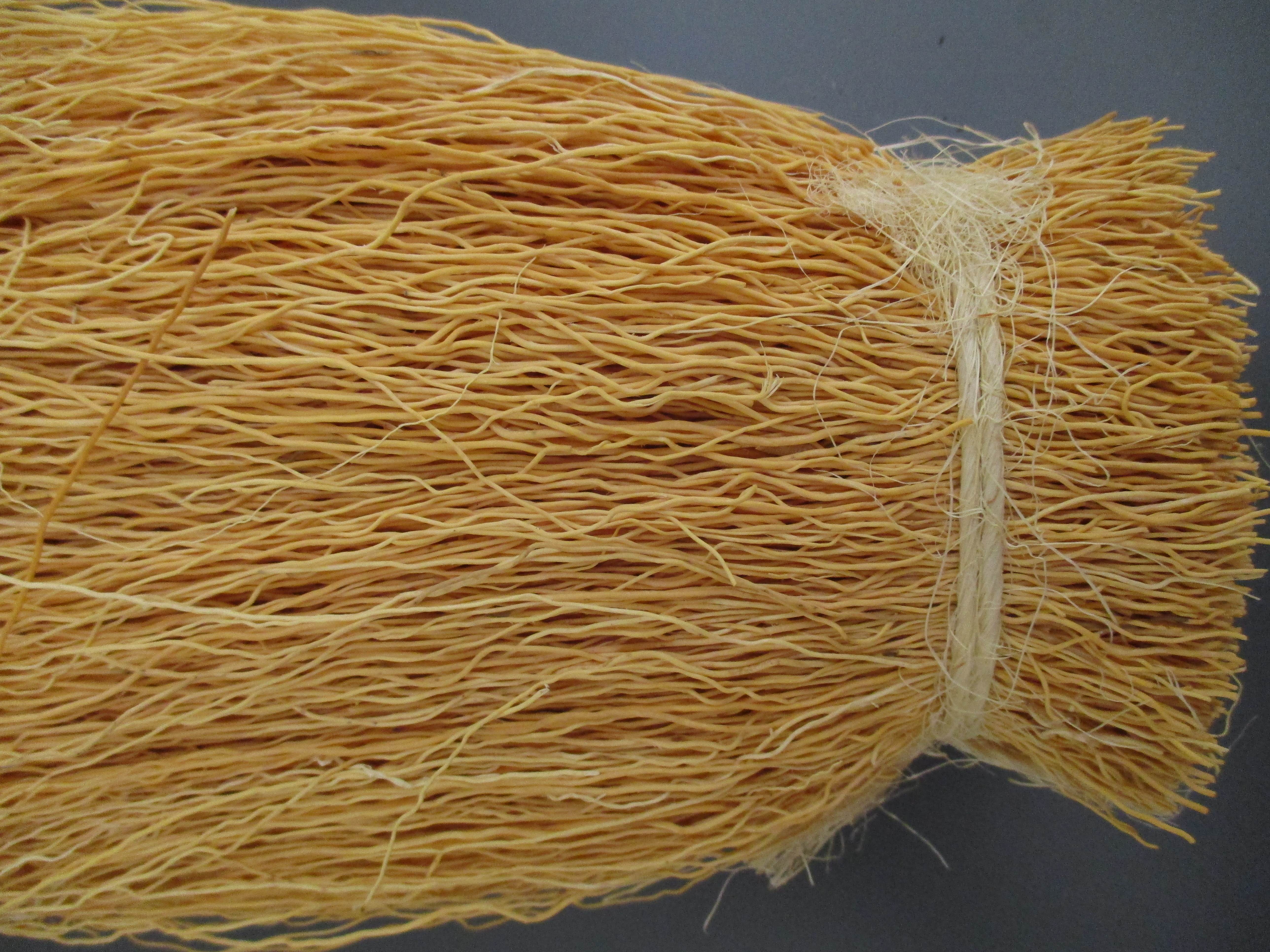 Broom root for brushes and brooms used for washing